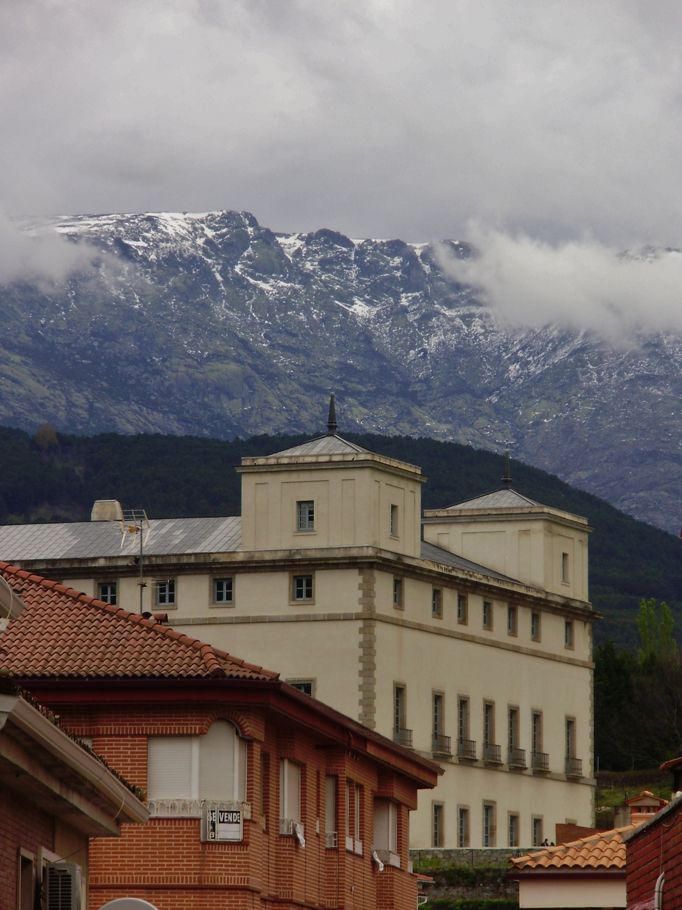 View of La Mosquera Palace, Arenas de San Pedrio, Ávila, Castile and León